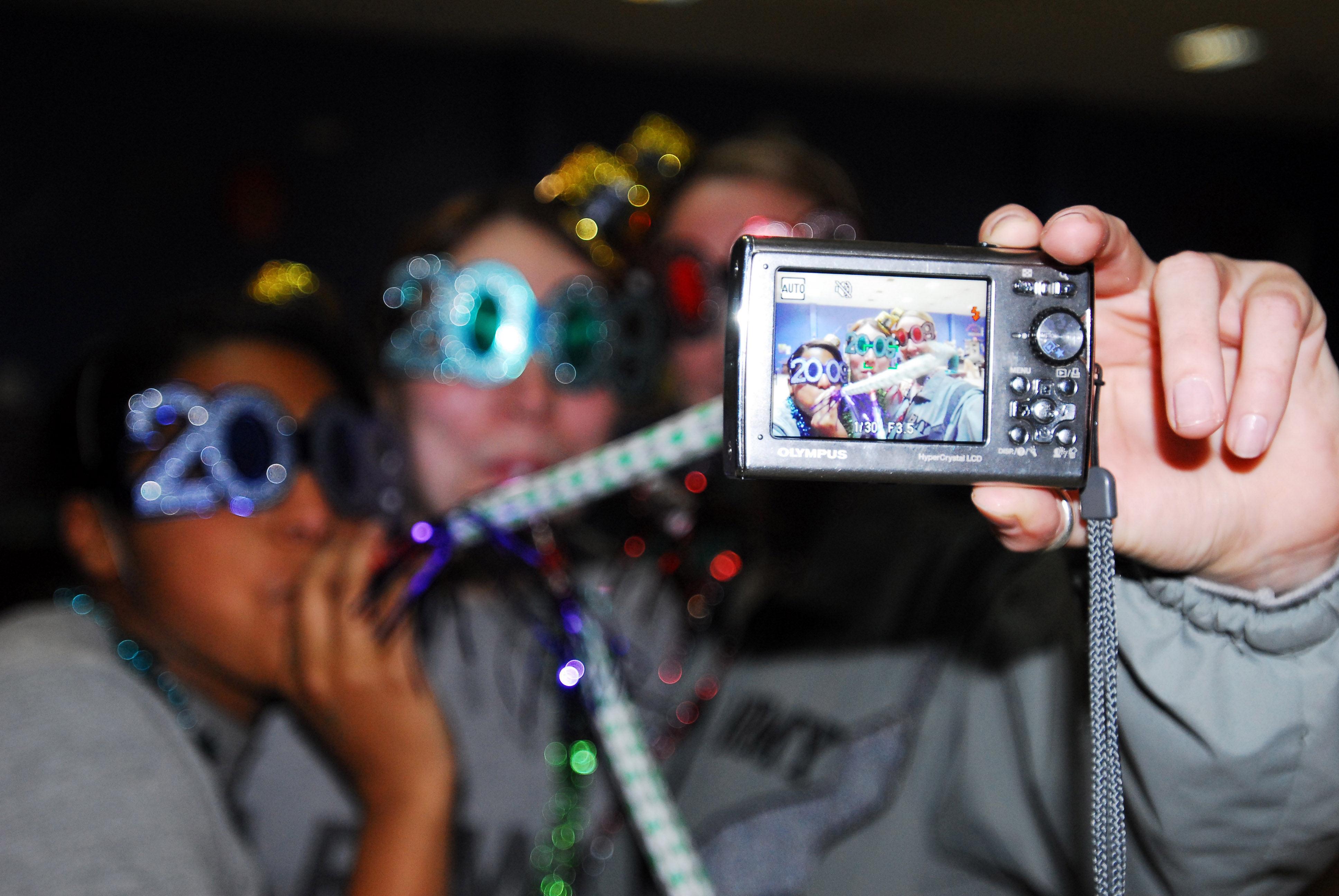 Soldiers from 834th Aviation Support Battalion from Task Force 34 stationed on Joint Base Balad, Iraq take a photo as they are waiting to ring in the New Year at the Morale Welfare and Recreation Center on Dec. 31, 2008. See more at Army.mil